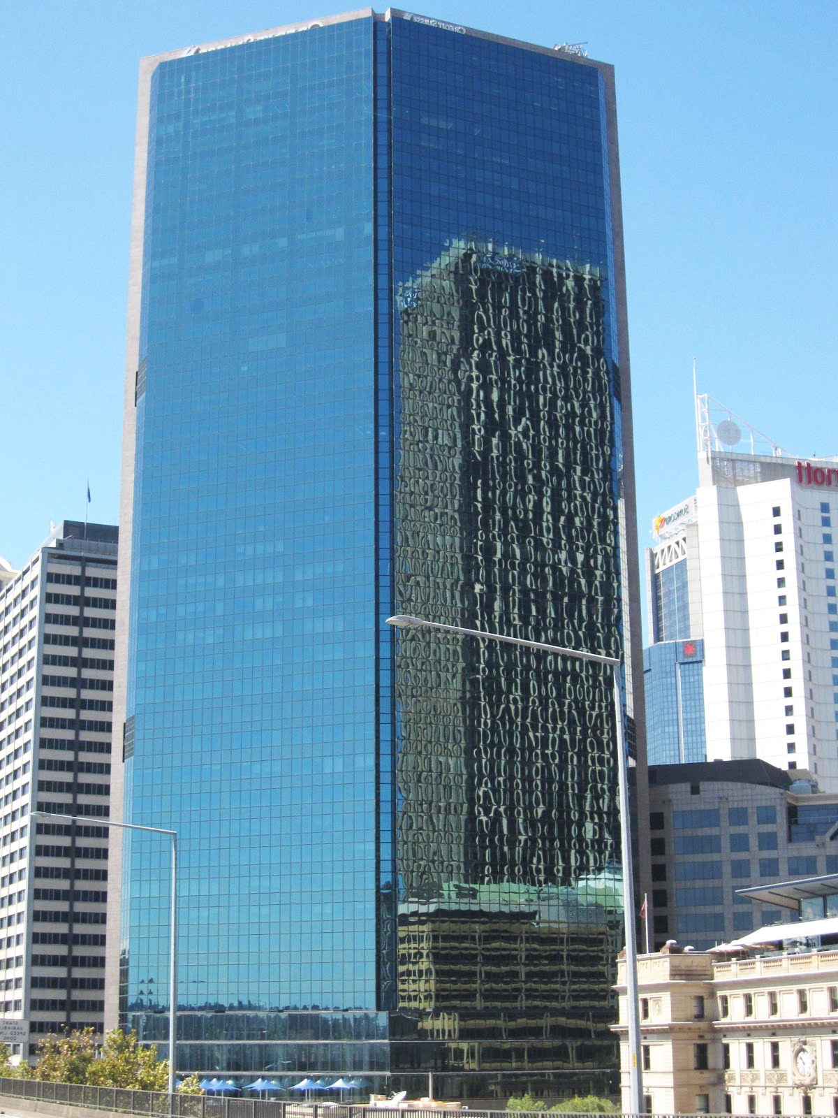 The Sydney Business School at the Gateway Building in Sydney